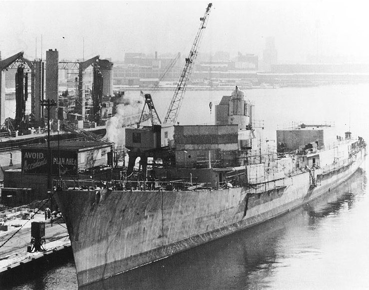 USS Decatur (DD-936/DDG-31) undergoing conversion from a destroyer (DD-936) to a guided-missile destroyer (DDG-31), at the Boston Naval Shipyard, Charlestown, Massachusetts, circa 1966.